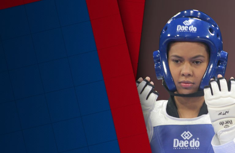 taekwondo